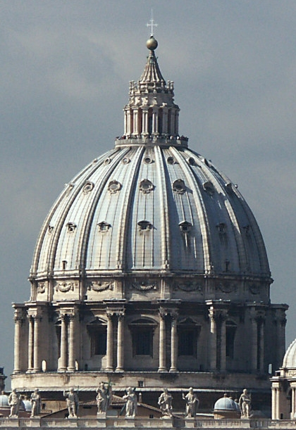 The dome of San Pietro in Vaticano (Saint Peter's Basilica) in Rome, seen from the roof of the Castel Sant'Angelo